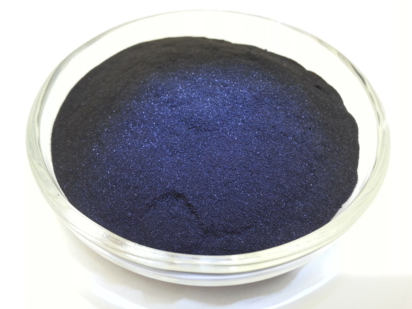 Pd2(DBA)3